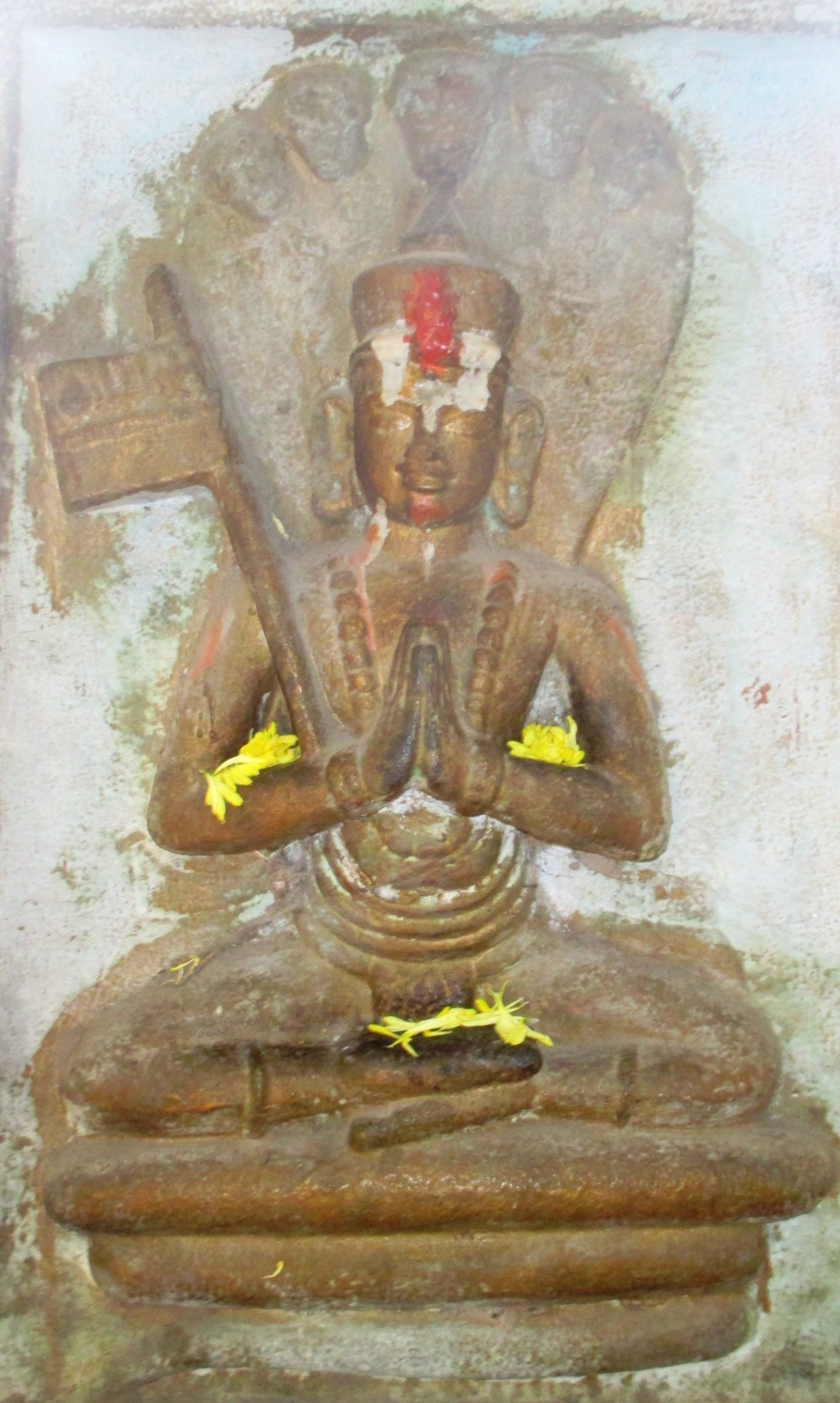 Pavalavannam Temple